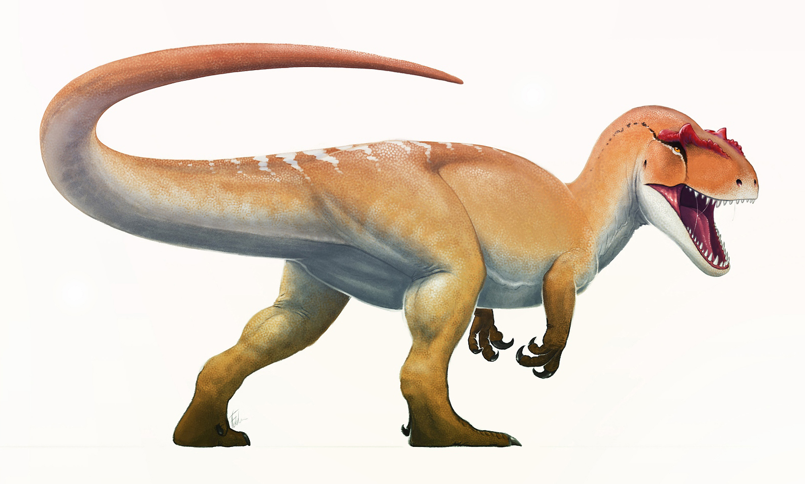 Life reconstruction of Allosaurus. Fred Wierum, 2015